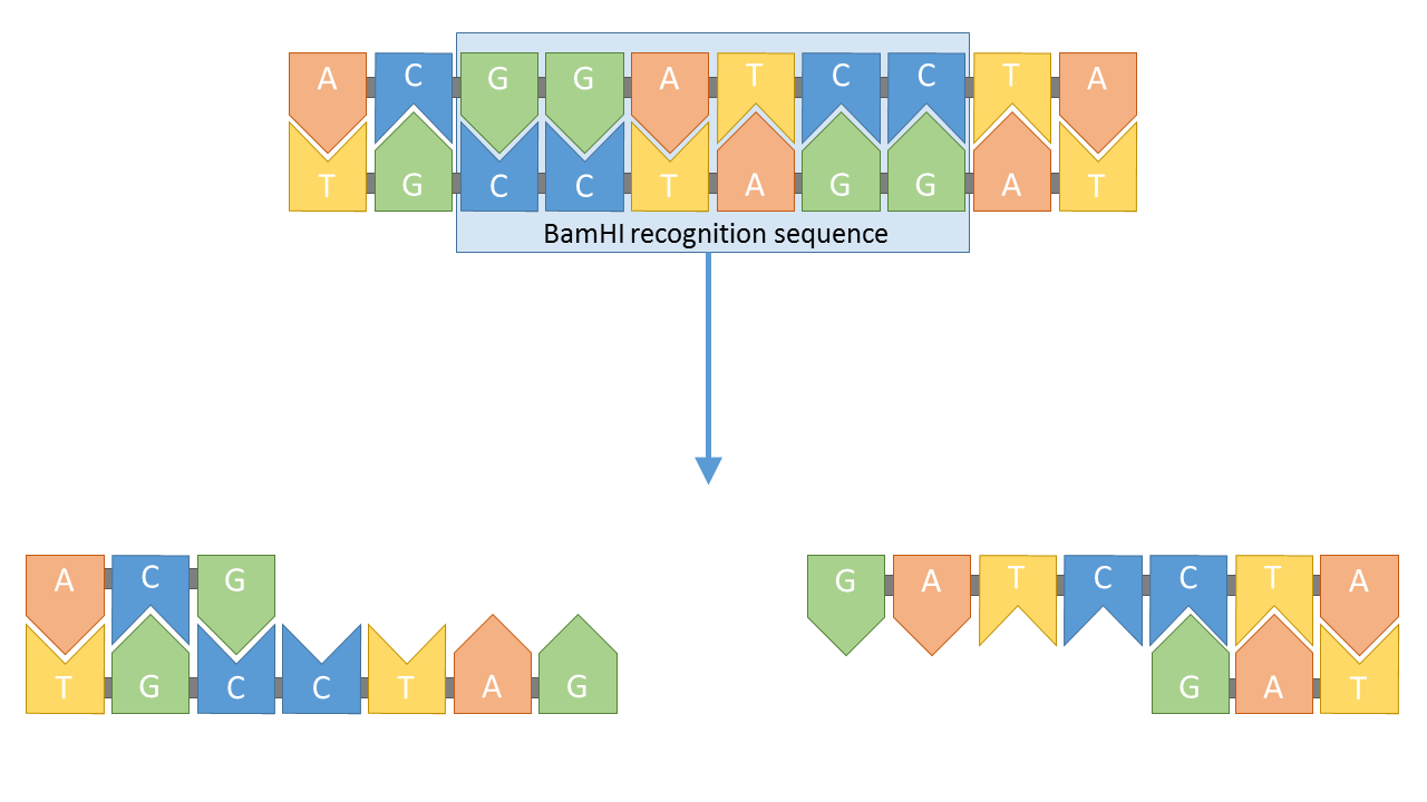 Restriction of DNA by BamHI enzyme. The enzyme cuts the DNA at the sequence GGATCC and leaves 'sticky ends' that can attach to complementary sticky ends.